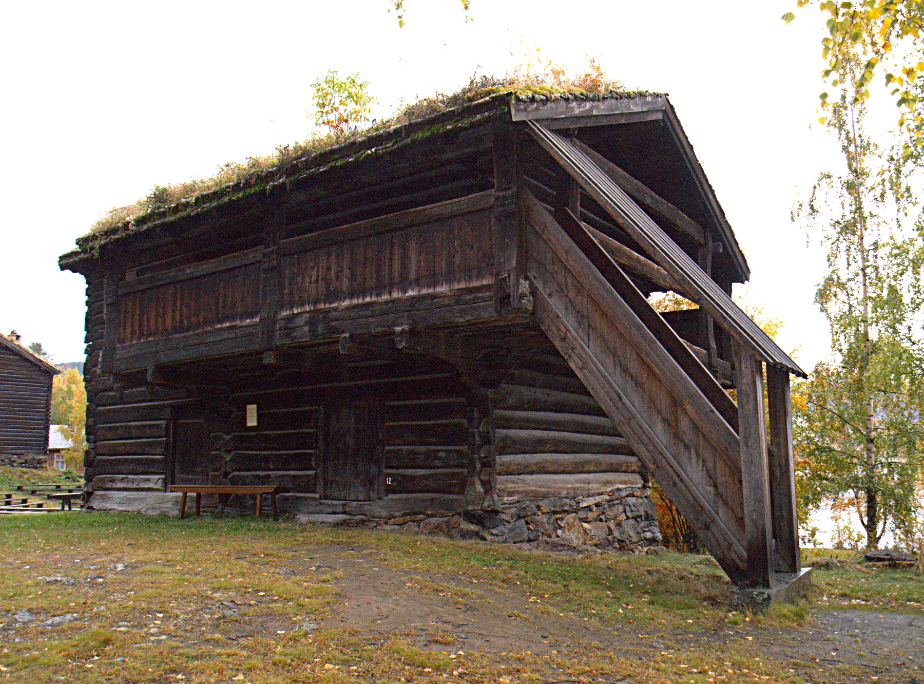 Handeloftet from the farm Hande in Vestre Slidre. The first building at Valdres Folkemuseum, bought from Hande in vestre Slidre 27. december 1905 for the amouth of 1000 kroner. Originaly it was reerected at Valdres Bygdesamling in 1906, and later relocated once more in 1923, this time to where it is now. It is assumed to have been built in the period 1530 - 1640.